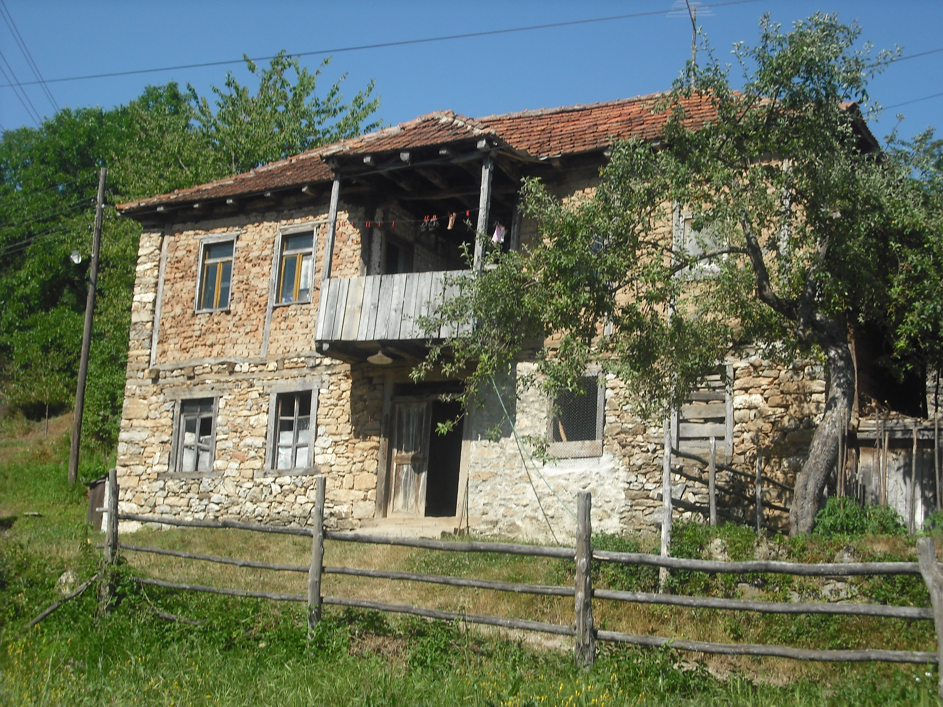 An old house in the village of Mramorec, Republic of Macedonia